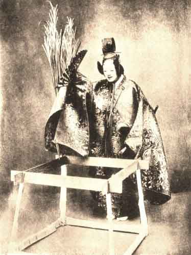 Appears in a 1921 book The No Plays of Japan.